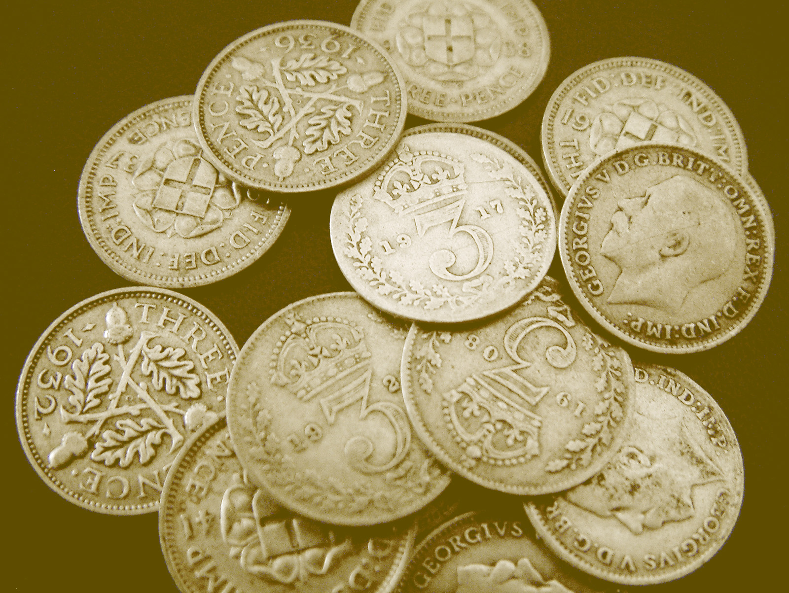 These were wrapped in paper knots and baked in Scottish clootie dumpling when I was a child